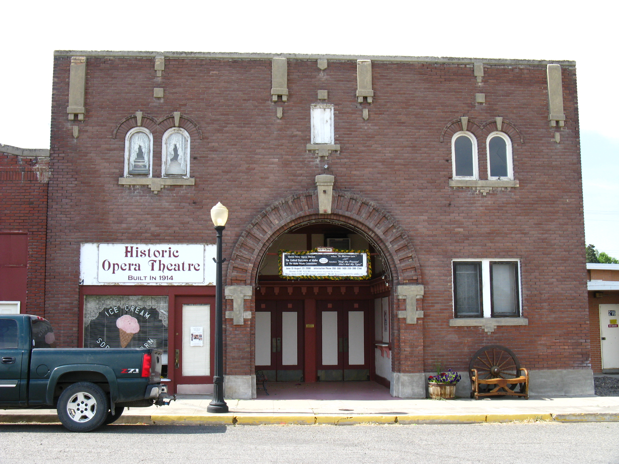 Gorby Opera Theater, Glenns Ferry, Idaho. This building is listed on the National Register of Historic Places.